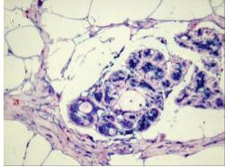 Microphotography of a preparation of a healthy mammary gland stained with Eag1